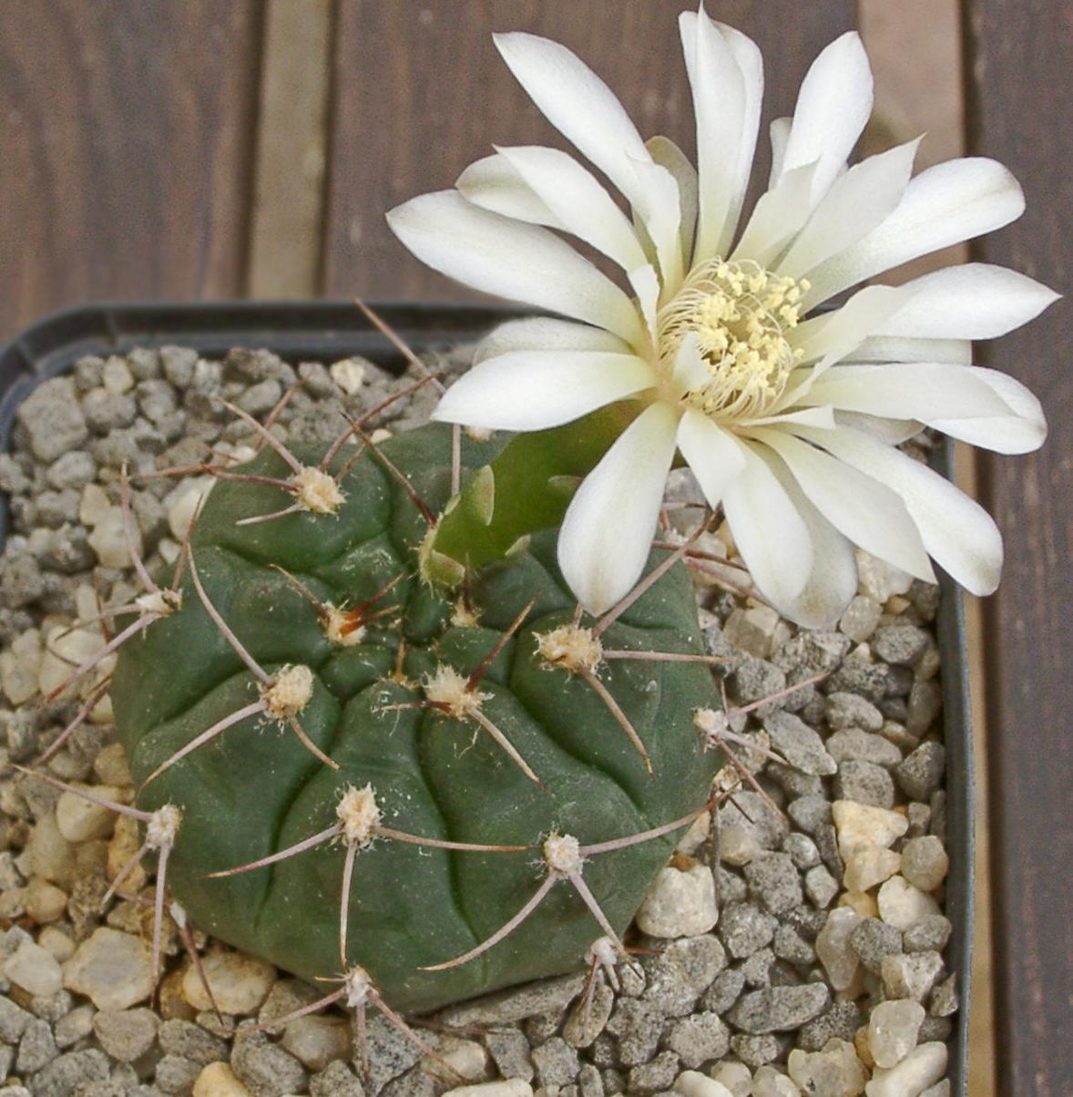 Gymnocalycium ochoterenae (Gymnocalycium moserianum) mit Blüte